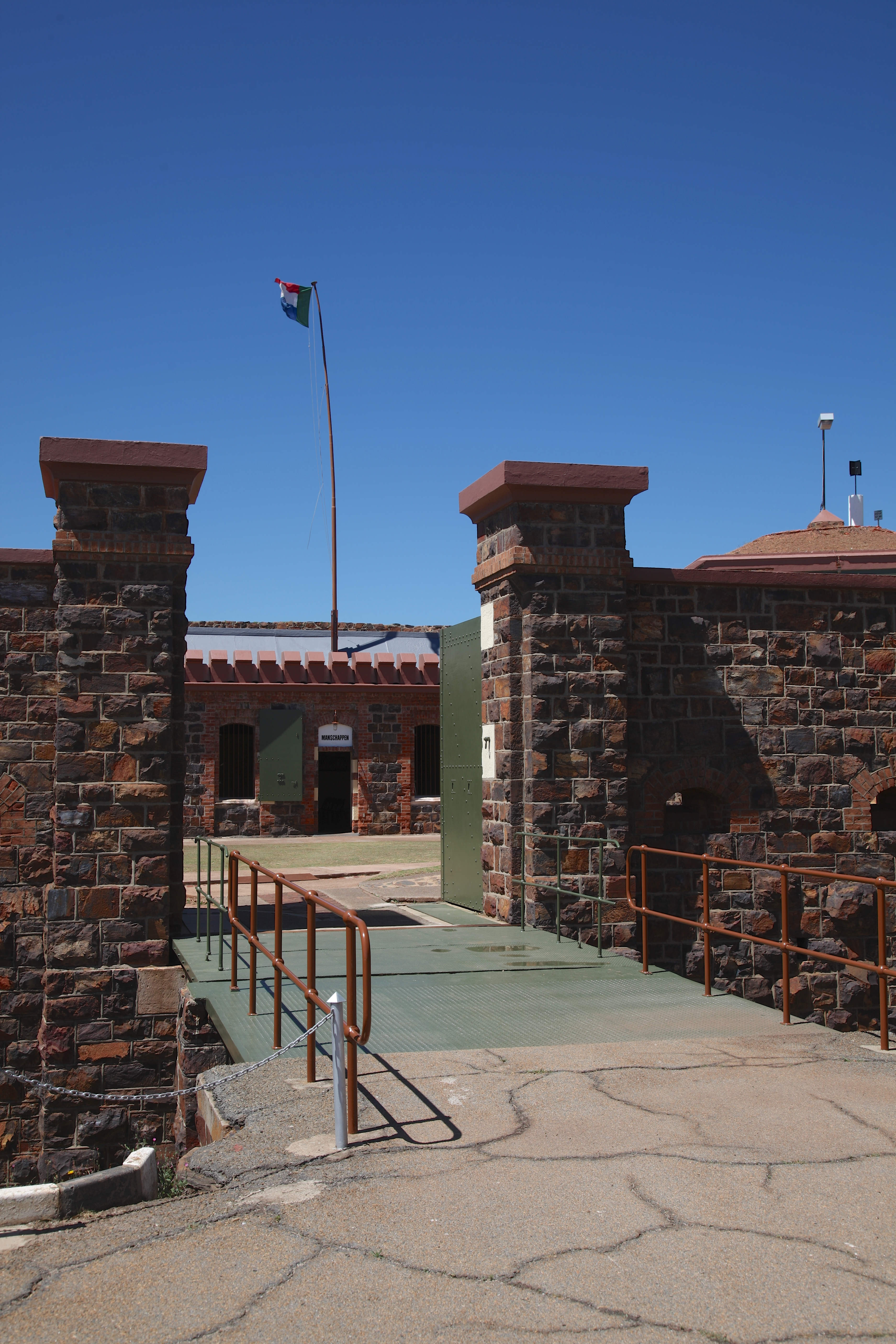 Fort Klapperkop, Groenkloof, Pretoria This media shows a South African Protected Site with SAHRA file reference 9/2/258/0032.